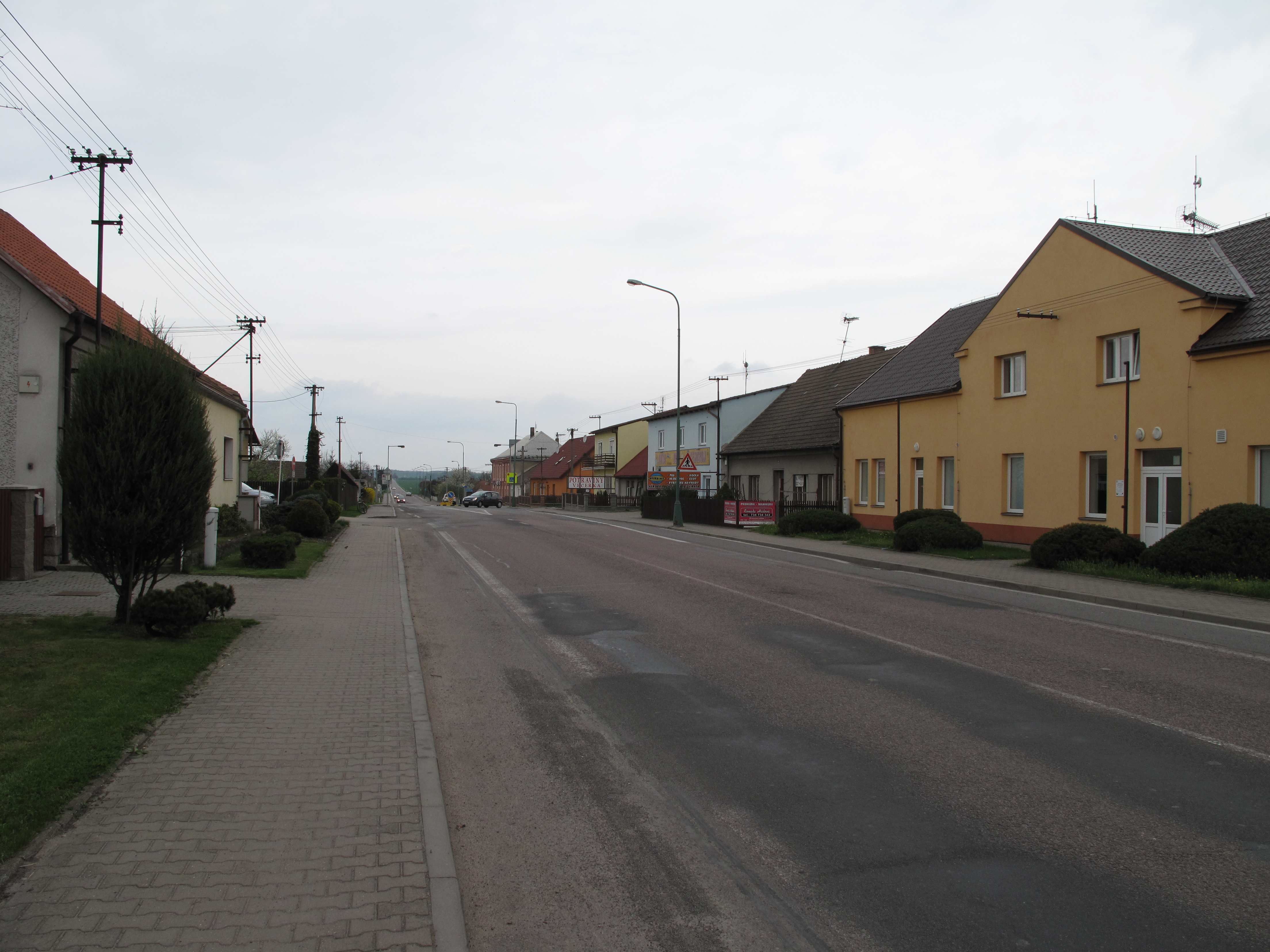 Main road in direction to Poděbrady in Lovčice village, Hradec Králové District, Czech Republic.